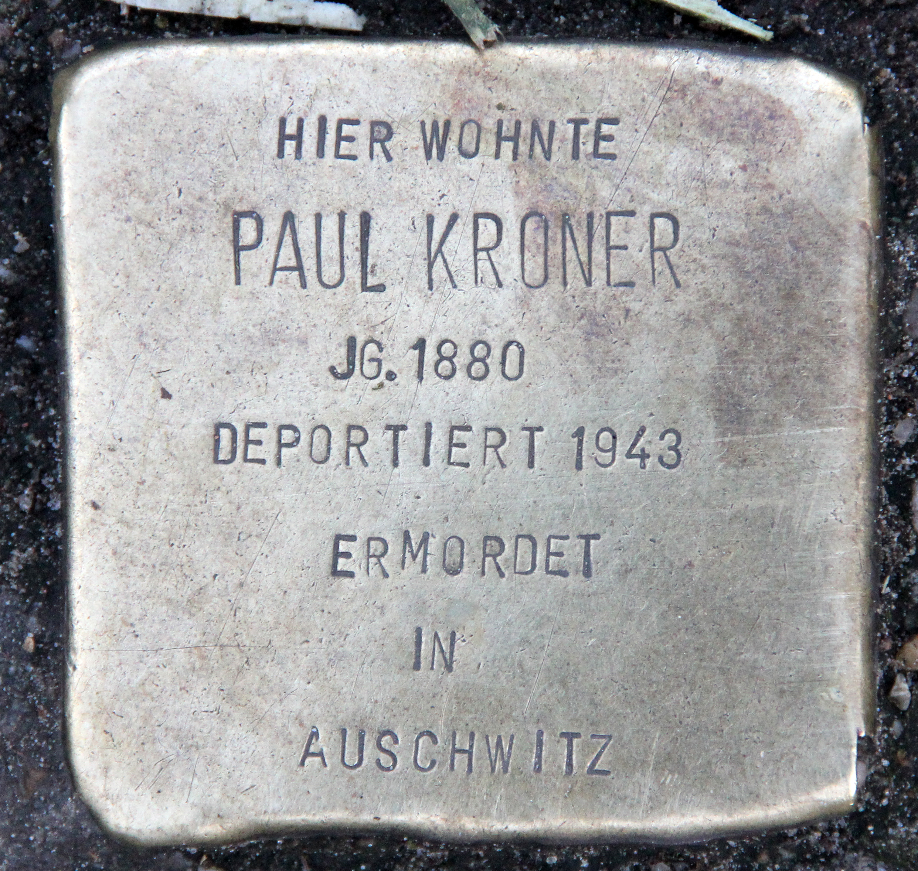 "Stolperstein" (stumbling block), Paul Kroner, Lützowstraße 41, Berlin-Tiergarten, Germany